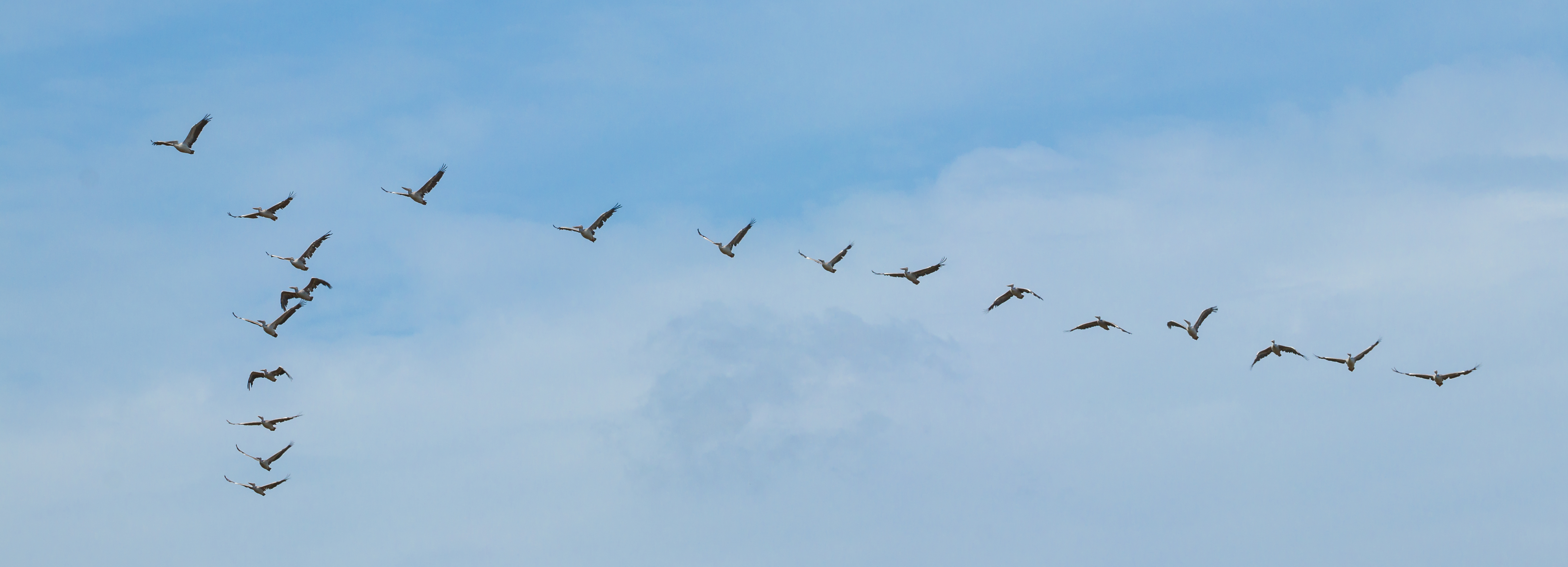 Formation flying of twenty Pink-backed pelicans, Pelecanus rufescens Gmelin, 1789, members of a feral population living in the surrounding of the Réserve Africaine de Sigean; Étang de Bages-Sigean, Aude department, France.